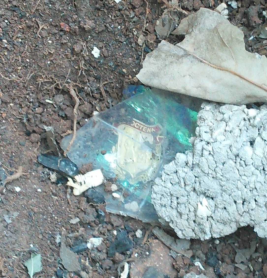 Children-made cache of candy wrapper and a commemorative badge